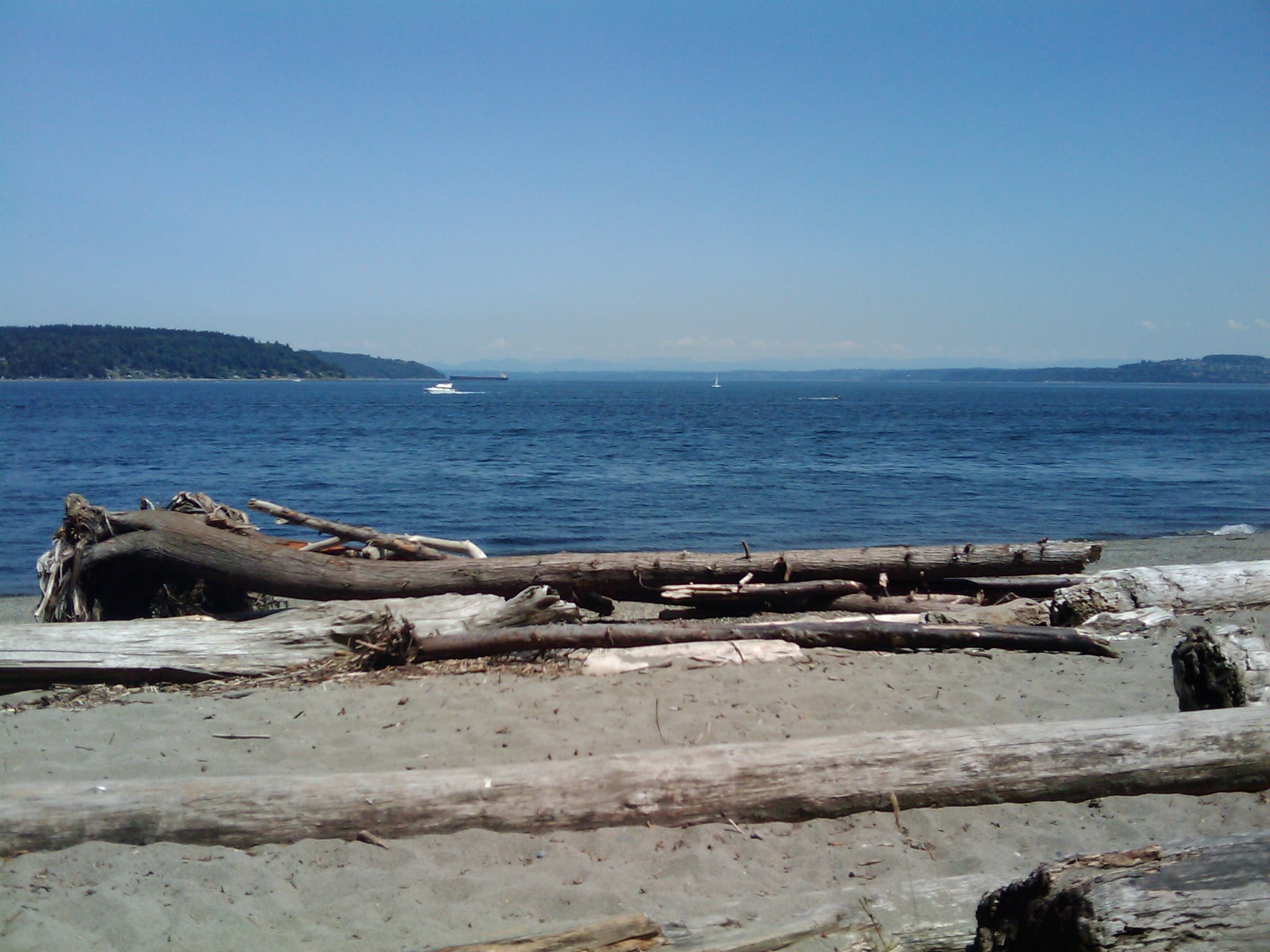 Picture taken from Owen Beach, part of the Pt. Defiance MetroPark in Tacoma, WA. View is looking north up the Puget Sound section of water known as Dalco Passage. Vashon Island is on the left side, Dash Point is on the right side of the photo across the water.